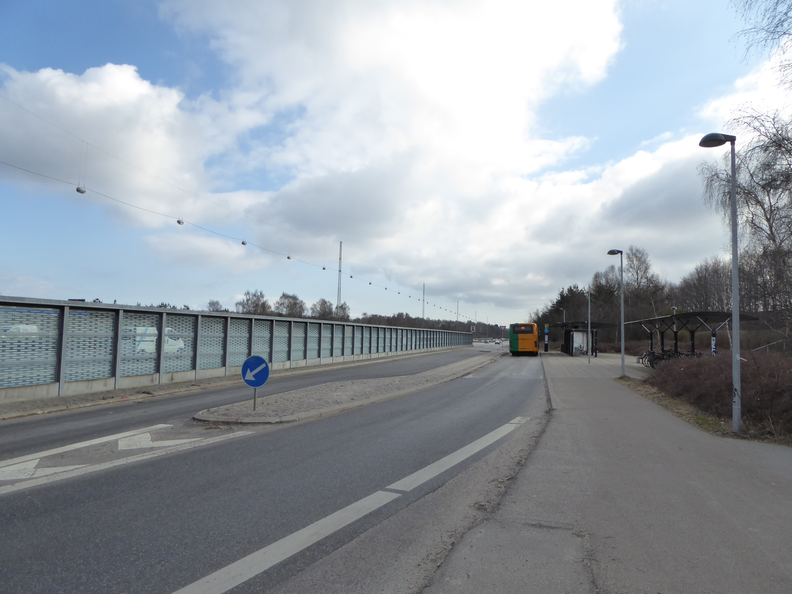 Kiss and Ride bus stop on Helsingørmotorvejen at Nærum Station north of Copenhagen. If the planned railway Lundtoftebanen had been created, it would have ended here.